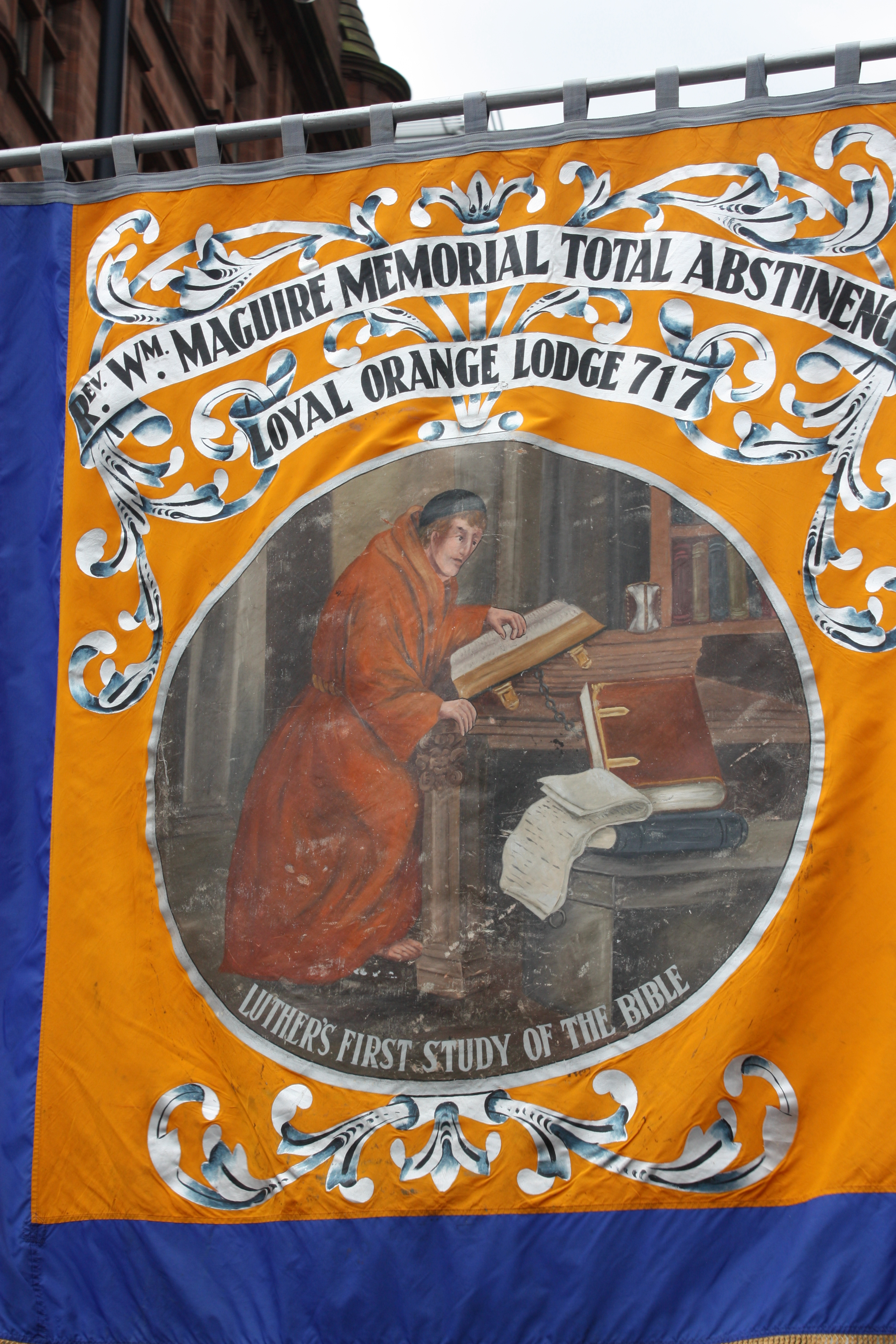 Banner, 12 July Orange Parades, crossing Donegall Square South, Belfast, Northern Ireland, July 2011 (Rev Wm Maguire Memorial Total Abstinence Loyal Orange Lodge 717)